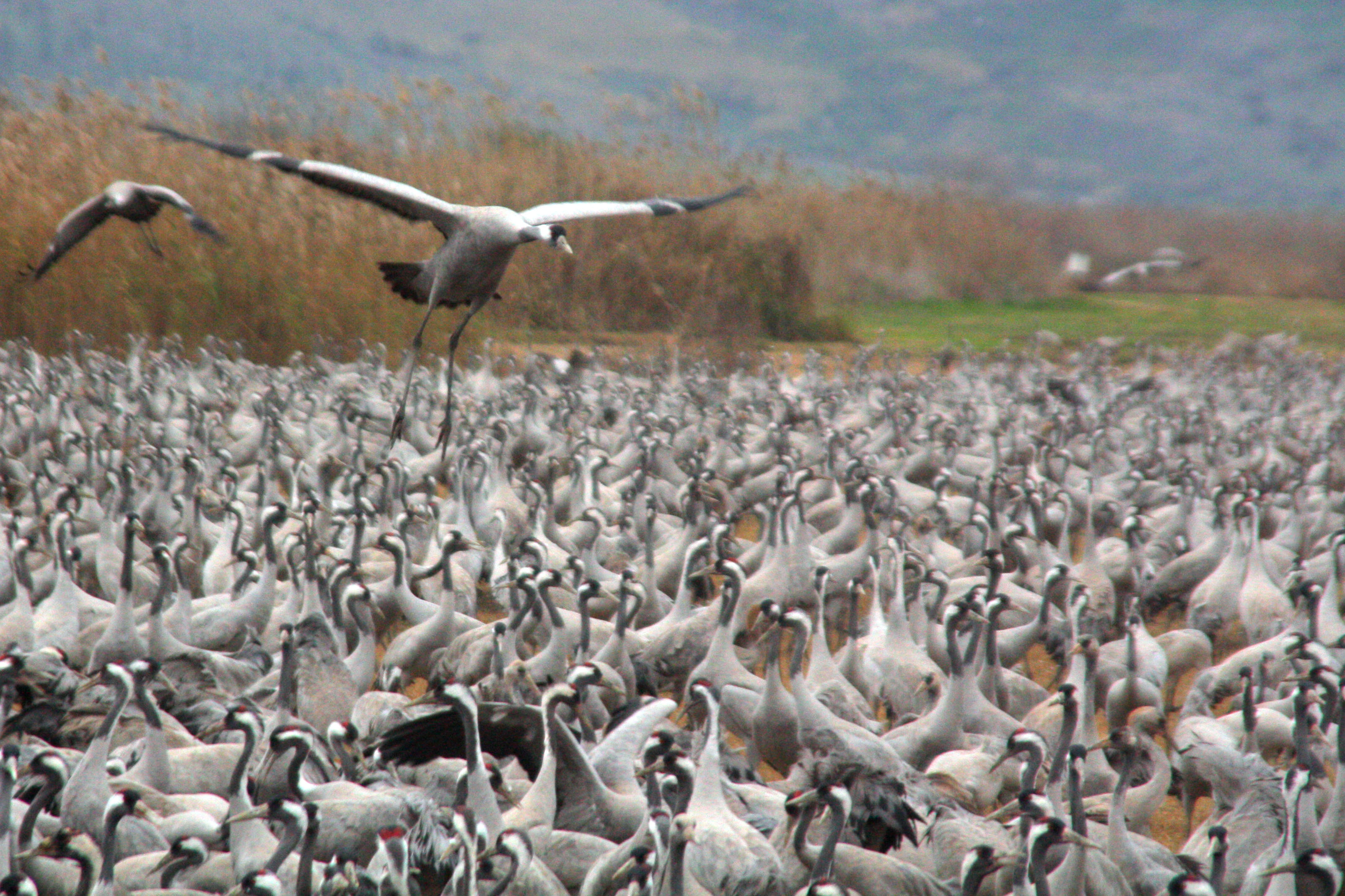 Common Cranes in Agamon HaHula